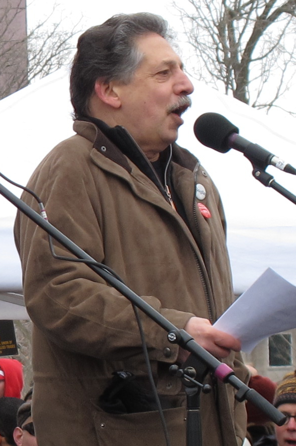 Paul Soglin, mayor of Madison, Wisconsin